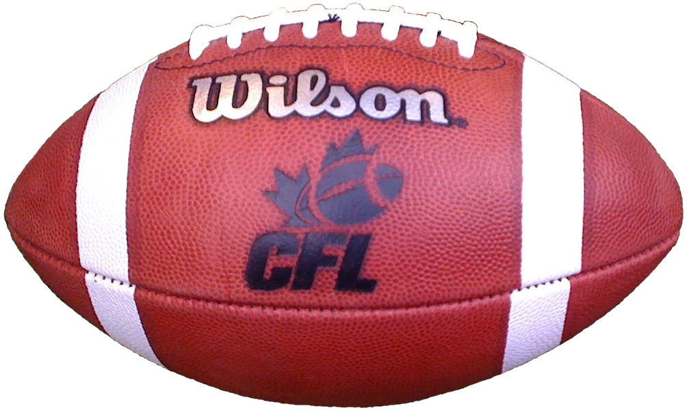 Canadian Football League ball with transparent background